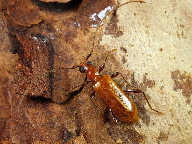 Obrium cantharinum, location: The Netherlands - Nuenen - Nuenens Broek